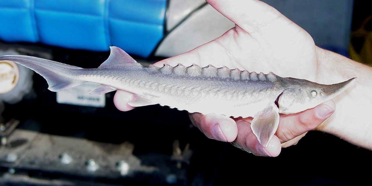 A juvenile White sturgeon (Acipenser transmontanus)